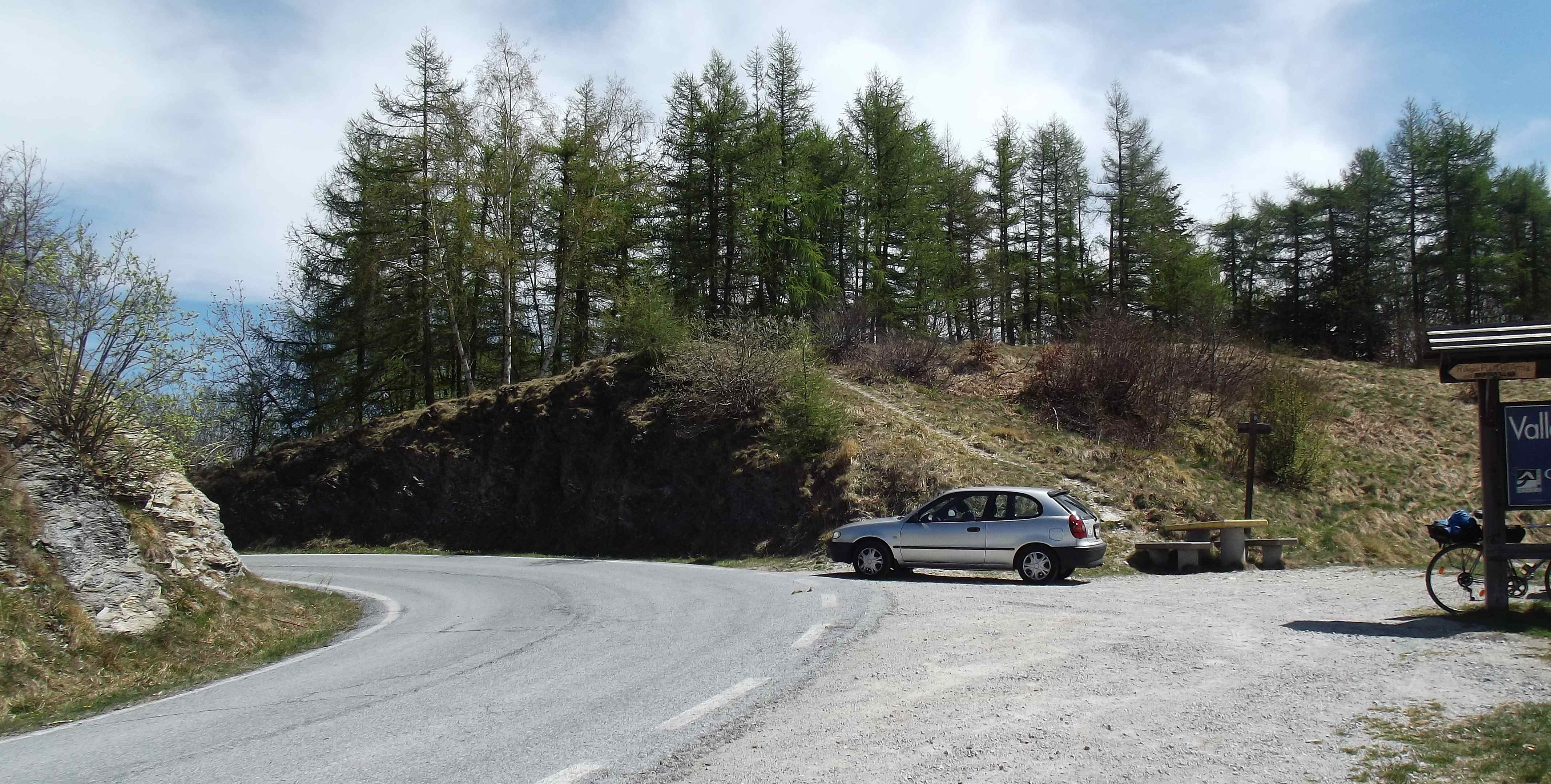 Colle di Caprauna (Ligurian Alps)